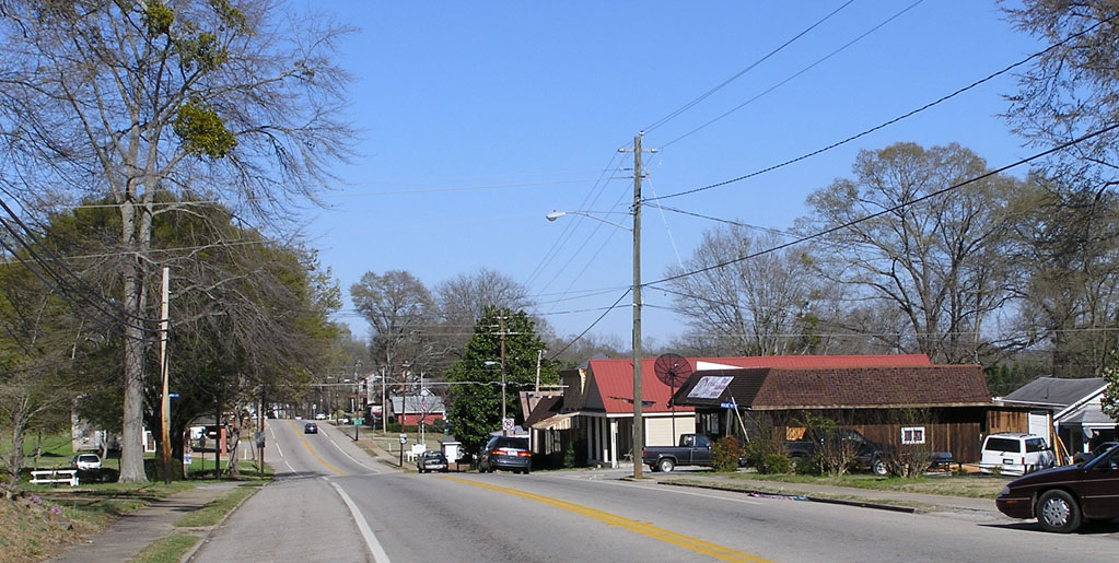 Downtown Homer in Banks County. The downtown park with the old Banks County Courthouse is on the left. Shops are on the right side of the street.